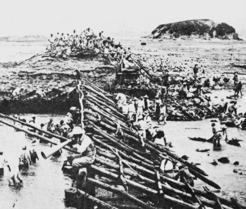 Engineering work built Incheon port at 1906